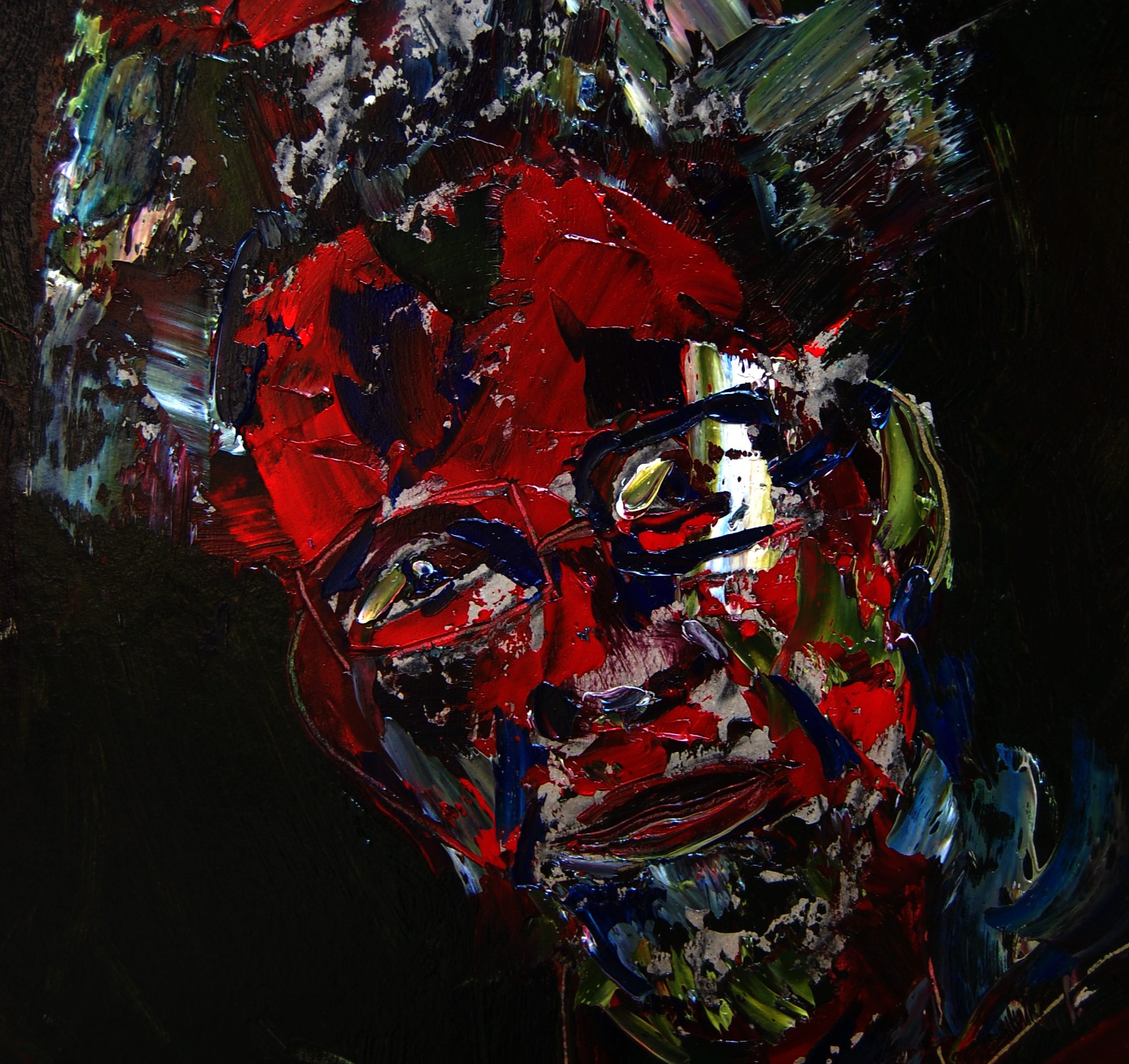 N. Duritskaya, work fragment "William Pope.L", Cardboard/oil, 100х70, 2013.